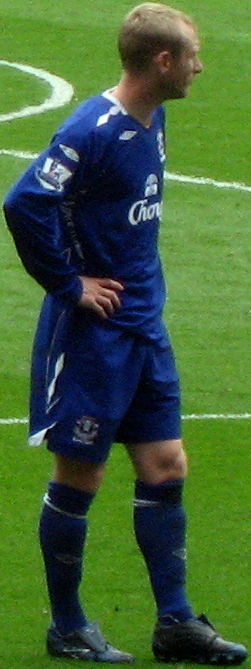 Tony Hibbert. Image cropped from original at flickr.